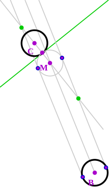 ьвтабьыва